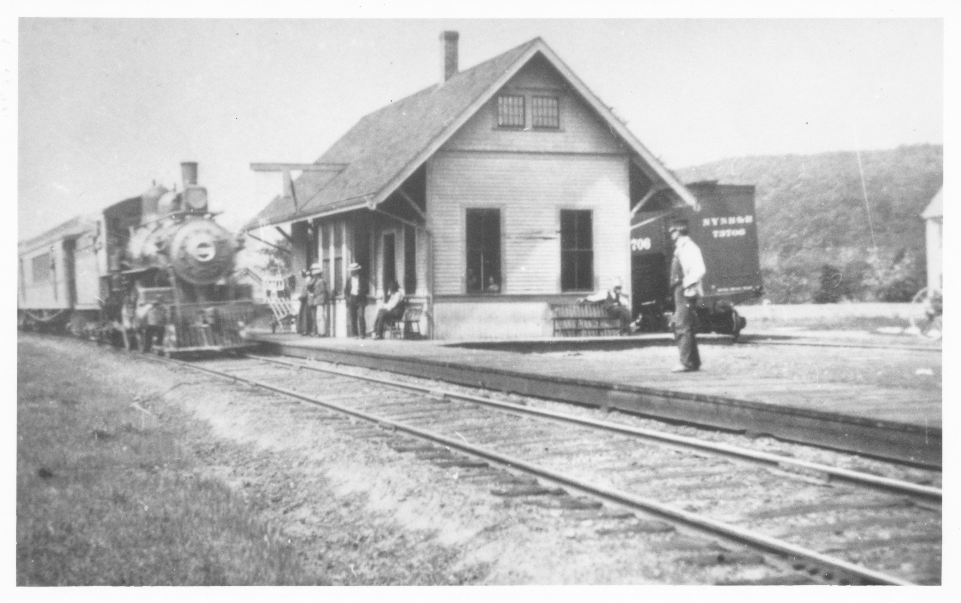 An early photo postcard showing the former Bournedale train station in Sandwich, Massachusetts train on Cape Cod.